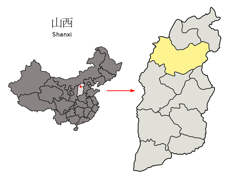 Location of Xinzhou Prefecture (yellow) within Shanxi Province of China Map drawn in december 2007 using various sources, mainly : Shanxi Province administrative regions GIS data: 1:1M, County level, 1990 Shanxi Counties map from